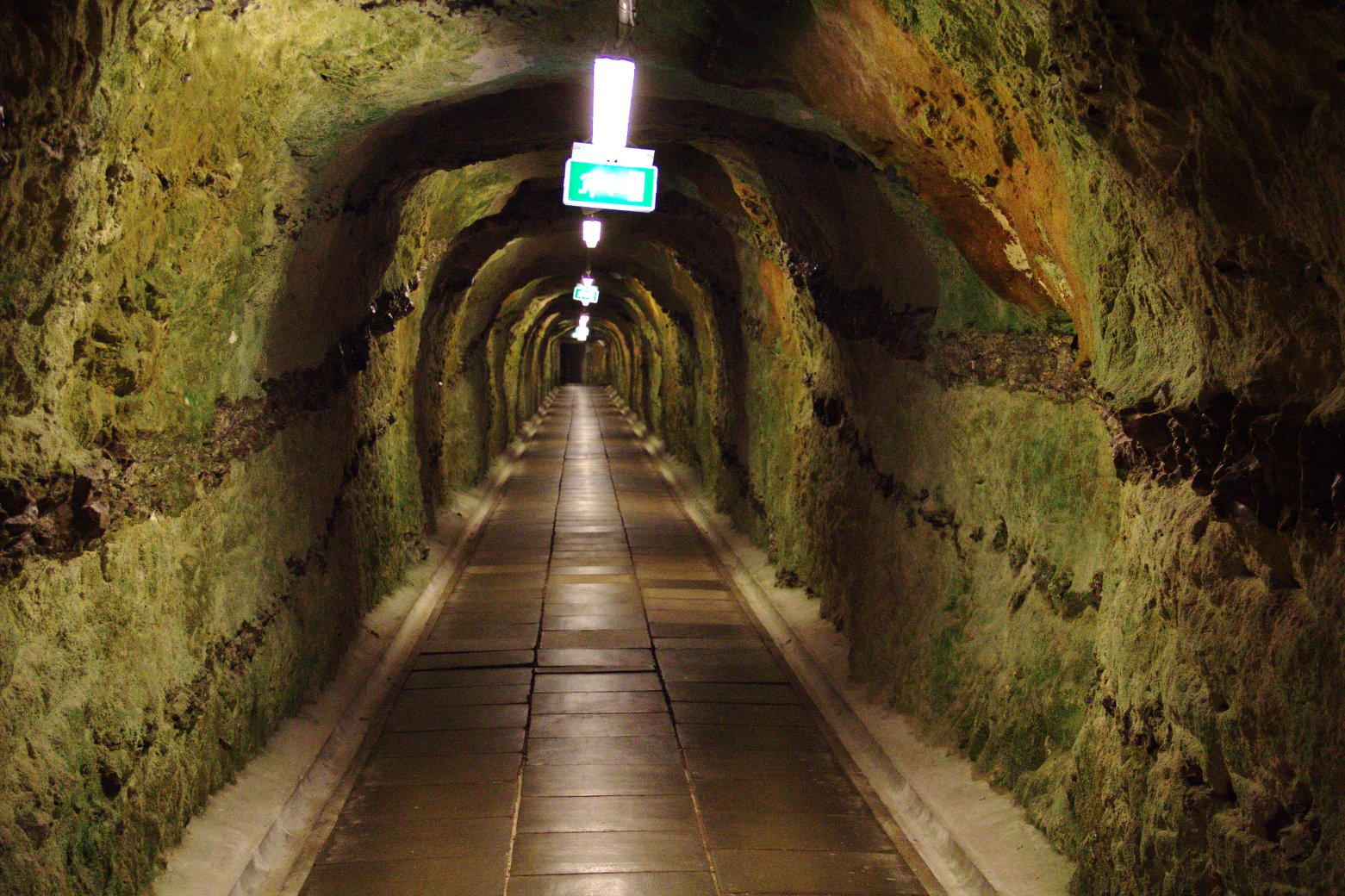 Stevnsfortet underground showing layers of limestone and flint, that would have taken the impact from bombs.